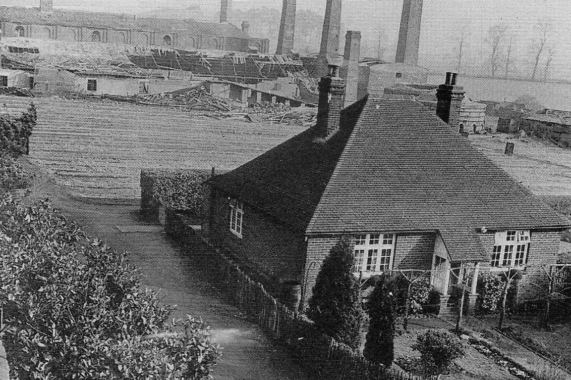 Blanchard's Brickworks Bishops Walton, Hampshire, after WWII bomb damage.